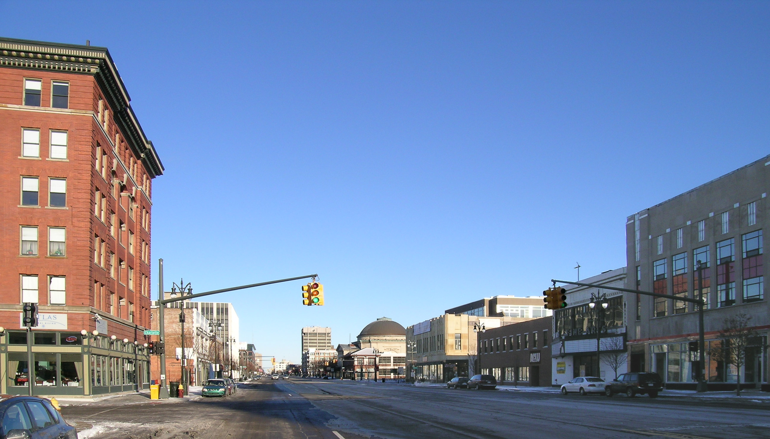 Midtown Woodward Historic District, lloking north from Charlotte